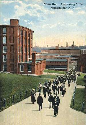 Noon Hour, Amoskeag Mills, Manchester, NH; from a c. 1912 postcard.